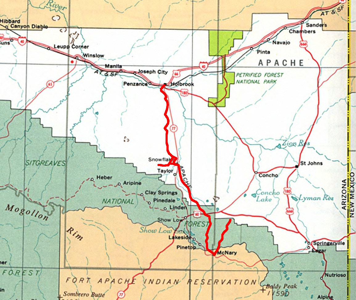 Map of the Apache Railway